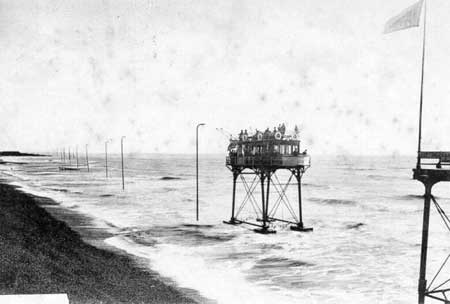 Photo of Daddy Long Legs, vehicle of unusual seagoing railway that existed in Brighton, UK, between 1896 and 1901.